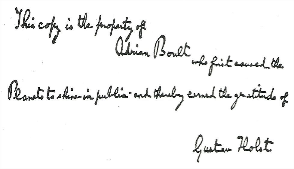 Handwritten inscription by Gustav Holst on Adrian Boult's copy of the score of The Planets: "This copy is the property of Adrian Boult who first caused the Planets to shine in public and thereby earned the gratitude of Gustav Holst." Holst died in 1934.